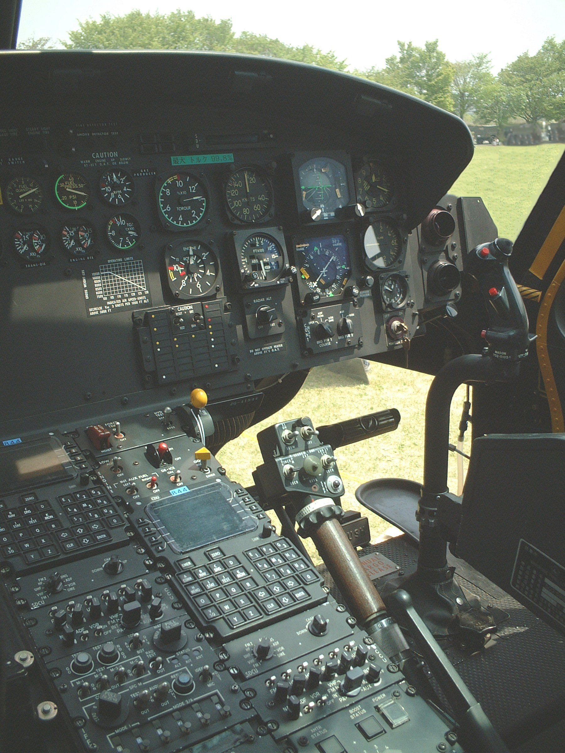 Cockpit of UH-1J. Photo taken in Tokyo Japan.